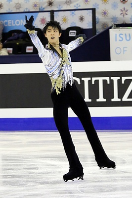 David W. Carmichael